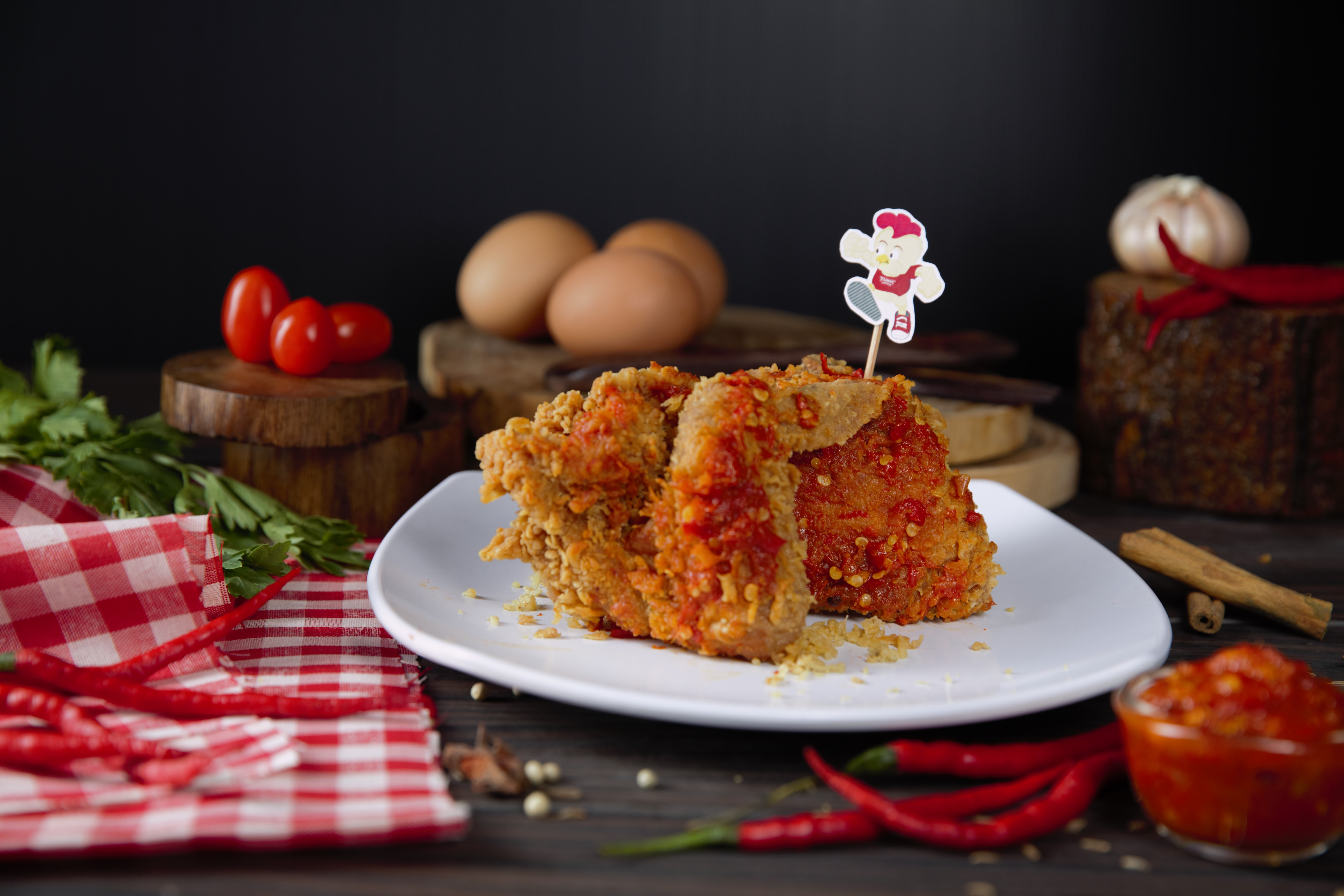 Another version of A first picture of Ayam Geprek invented by Quick Chicken and named as American Penyet.